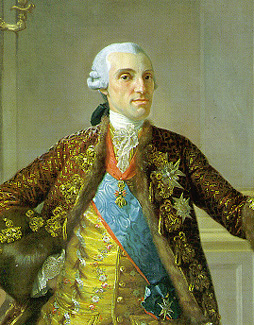 Philip I, duke of Parma